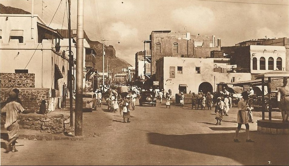 Old Aden ("Crater) main bazaar in the 1930s.